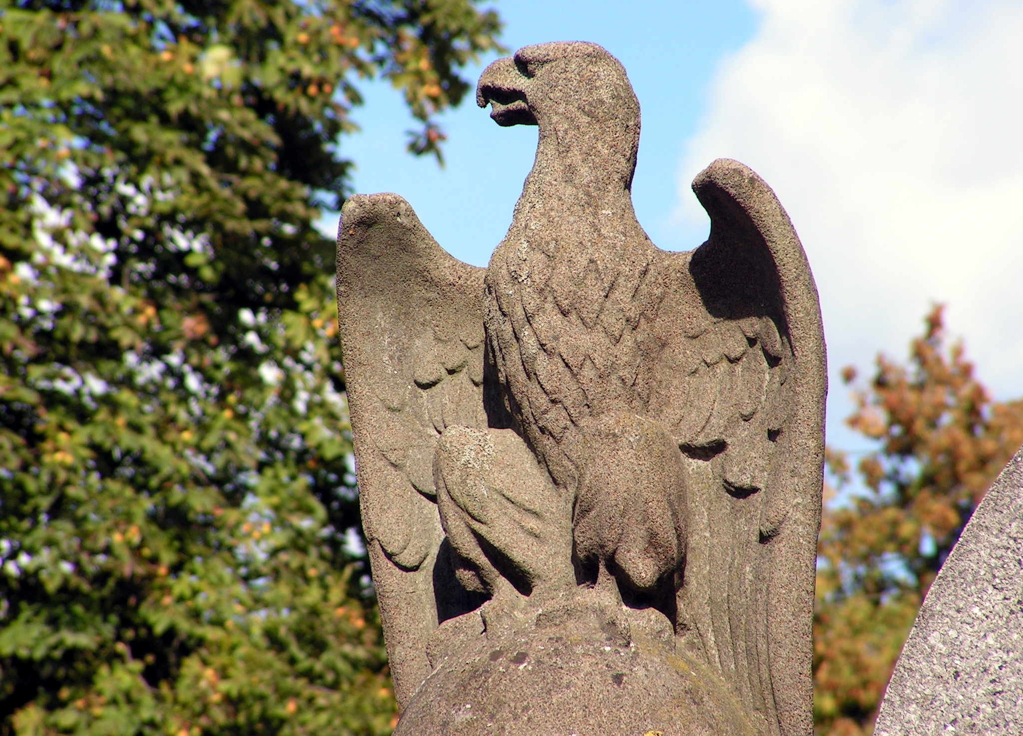 Statue of Eagle, detail of Kostrzewa family grave on Communal Cemetery in Włocławek. Here were buried January Uprising member Wiktor Michał Kostrzewa (1845-1936); Maria Kostrzewa (died in 1922) and teacher Stanisław Kostrzewa (1897-1945).